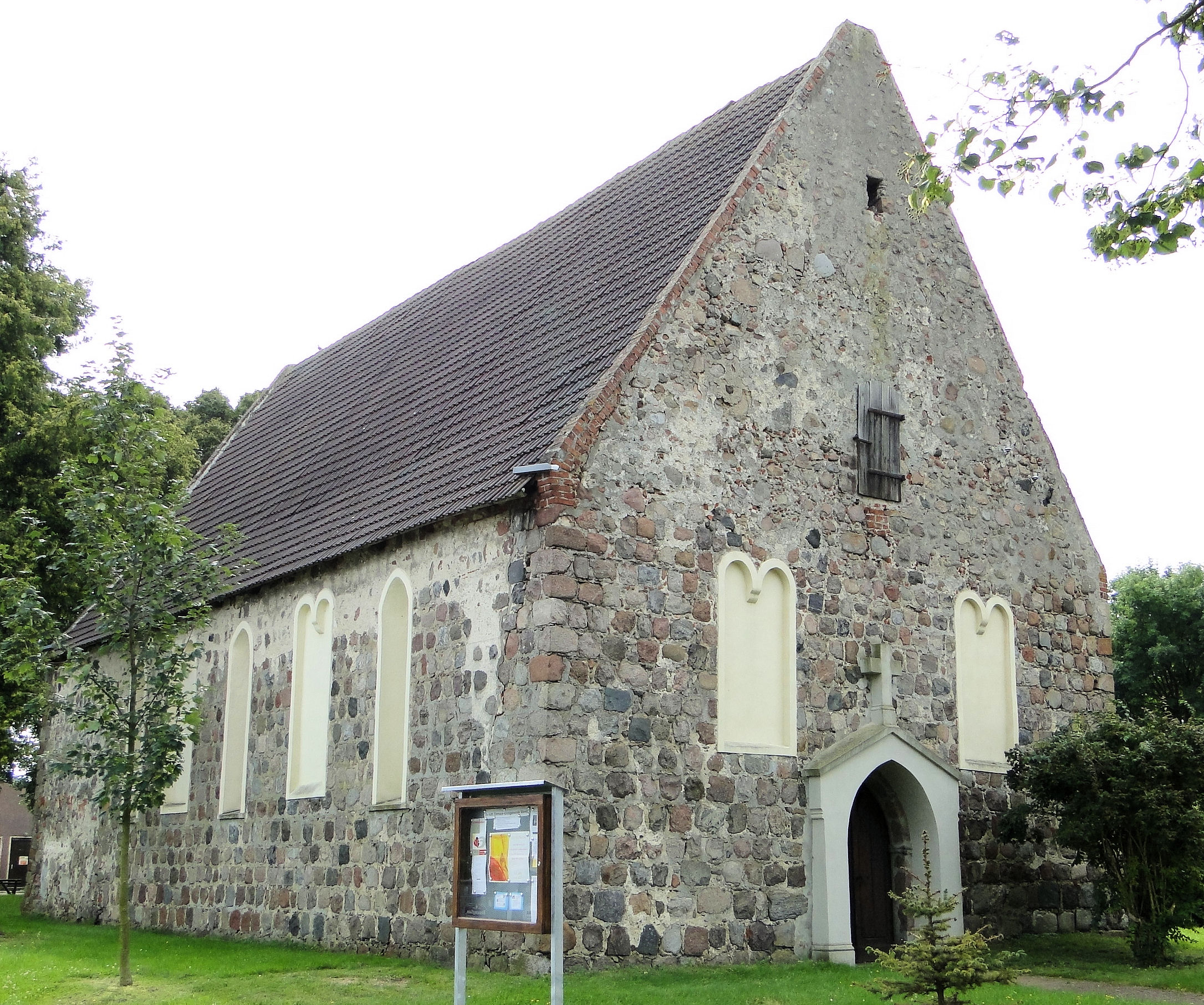 Church in Staven, district Mecklenburg-Strelitz, Mecklenburg-Vorpommern, Germany